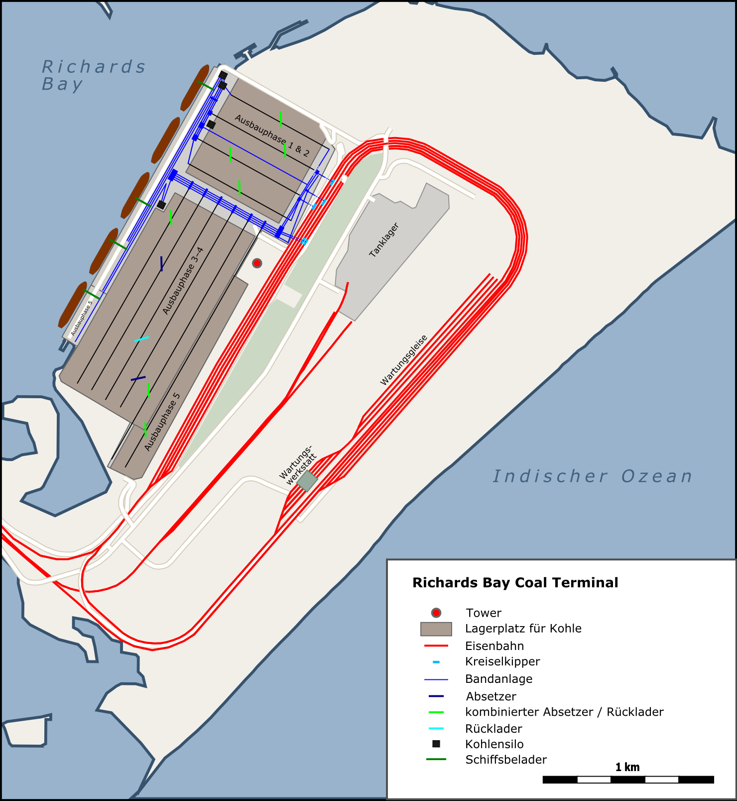 Map of Richards Bay Coal Terminal